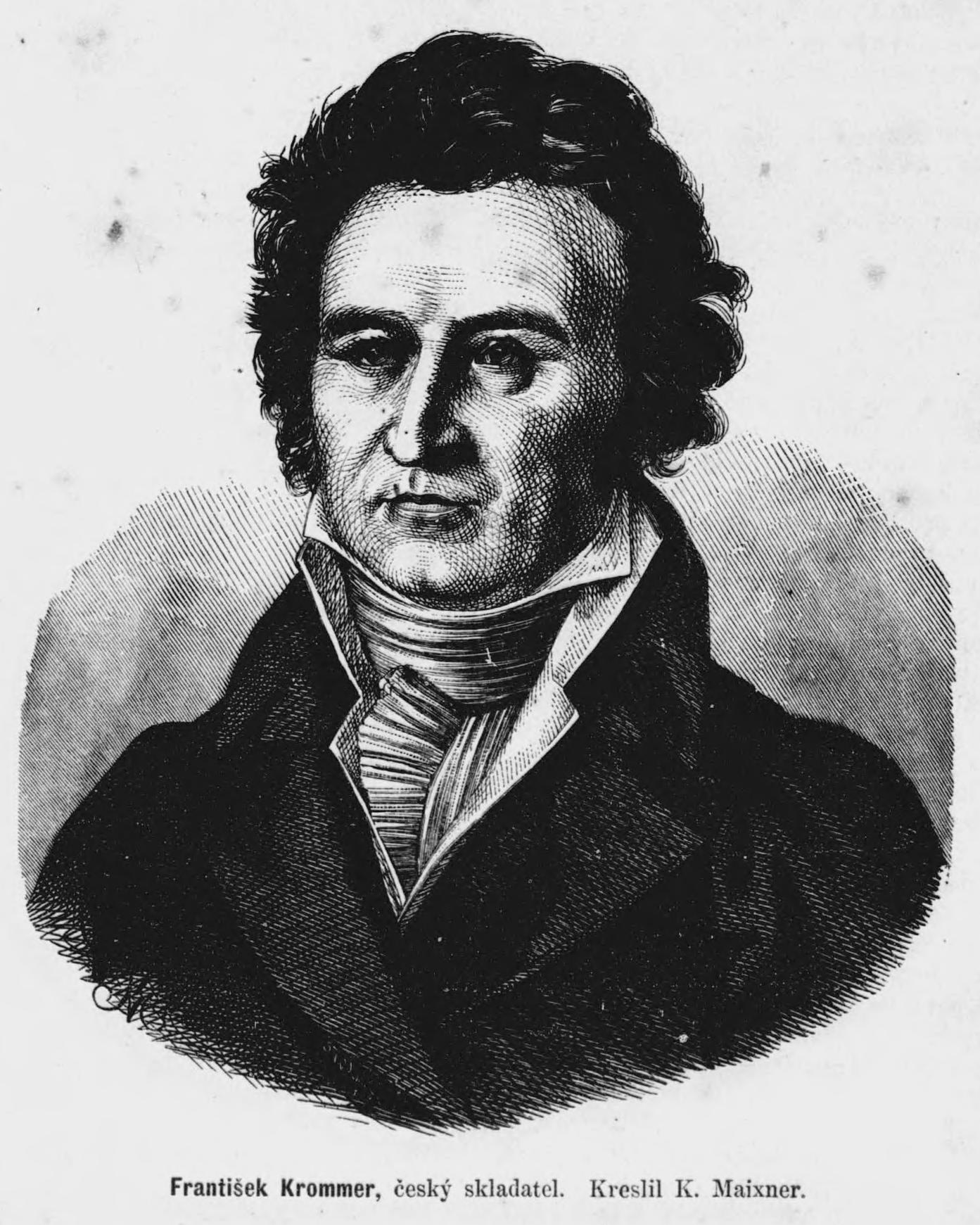 Portrait of Franz Krommer (Czech: František Kramář, 1759 - 1831), Czech composer